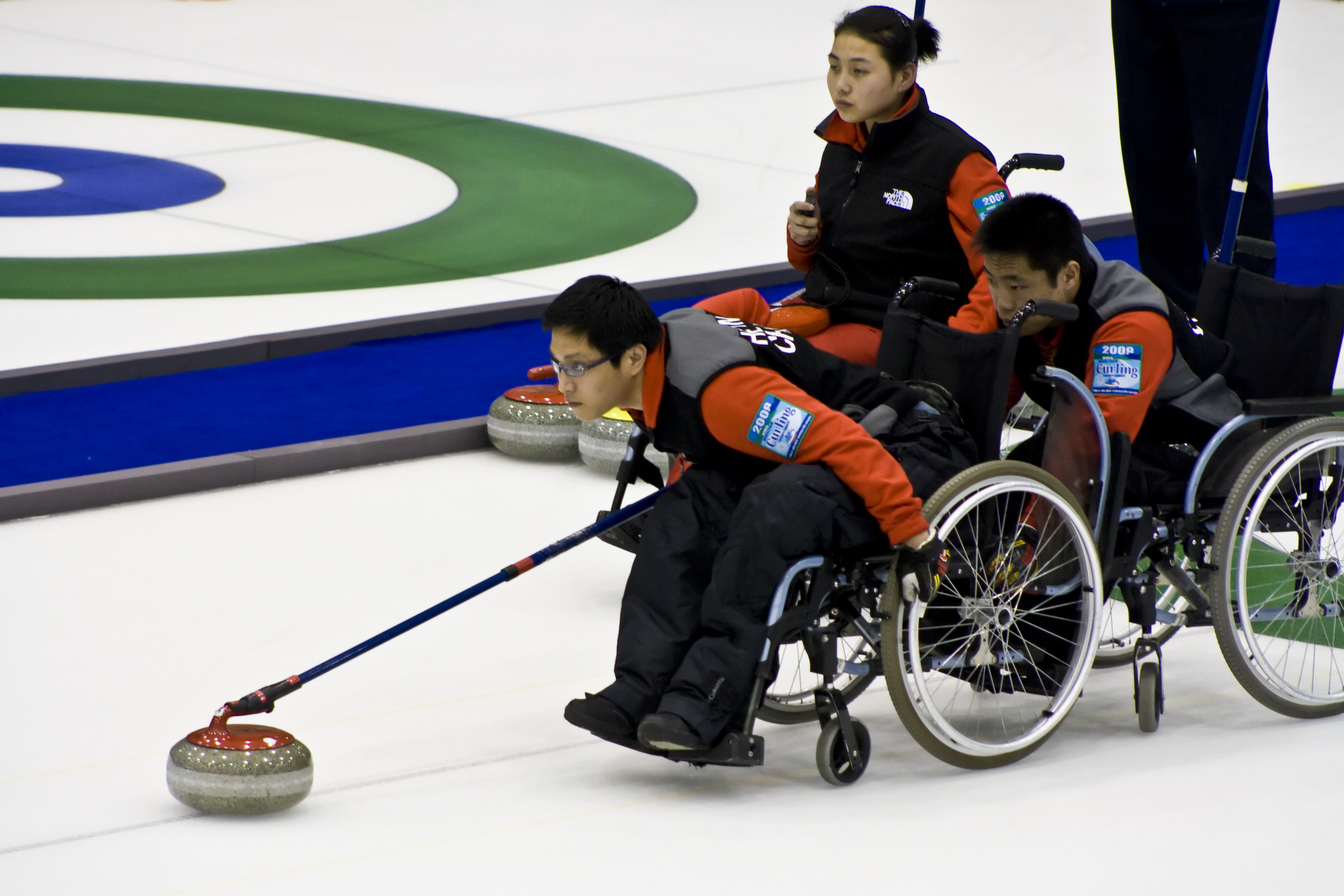 Team China: He Jun (left), Xu Guangqin (center)